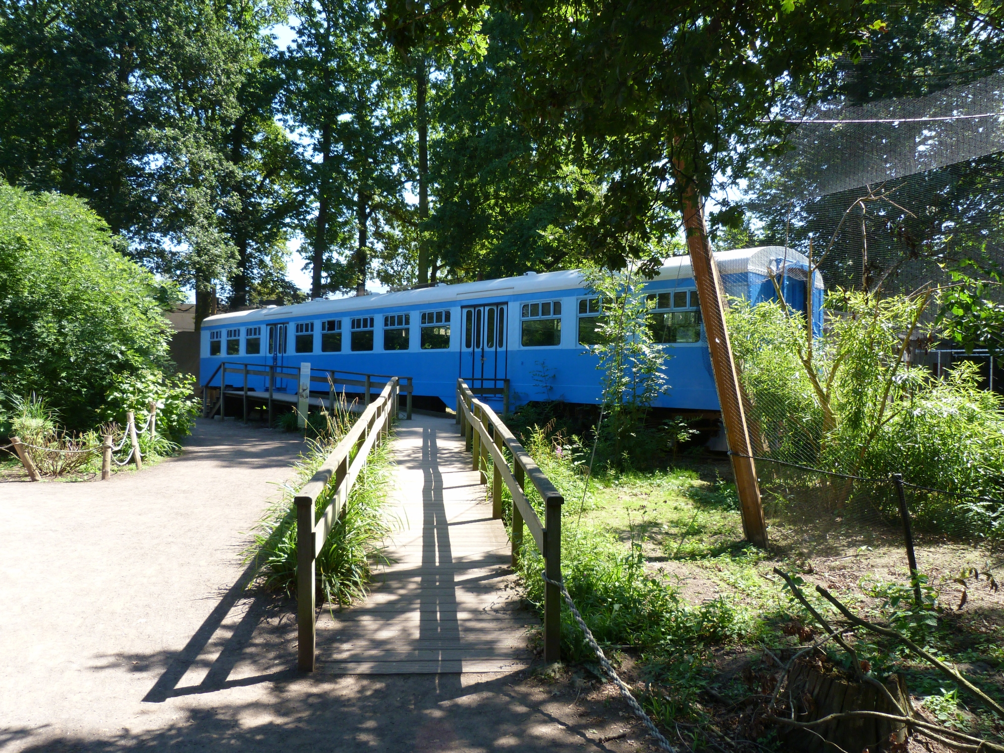 NMBS M2 rail car in Planckendael